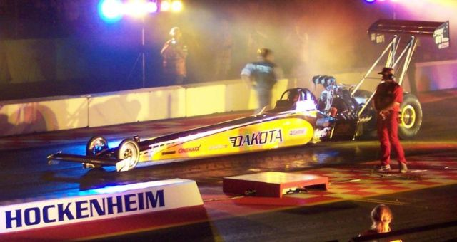 Nitrolympx: Top Fuel Dragster at "the Nightshow". Brady Kalivoda (USA) drives the Dakota-TF-Dragster of Nitrolympx-Promoter Rico Anthes (GER)